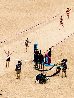 Modern pentarthlon women finish London 2012